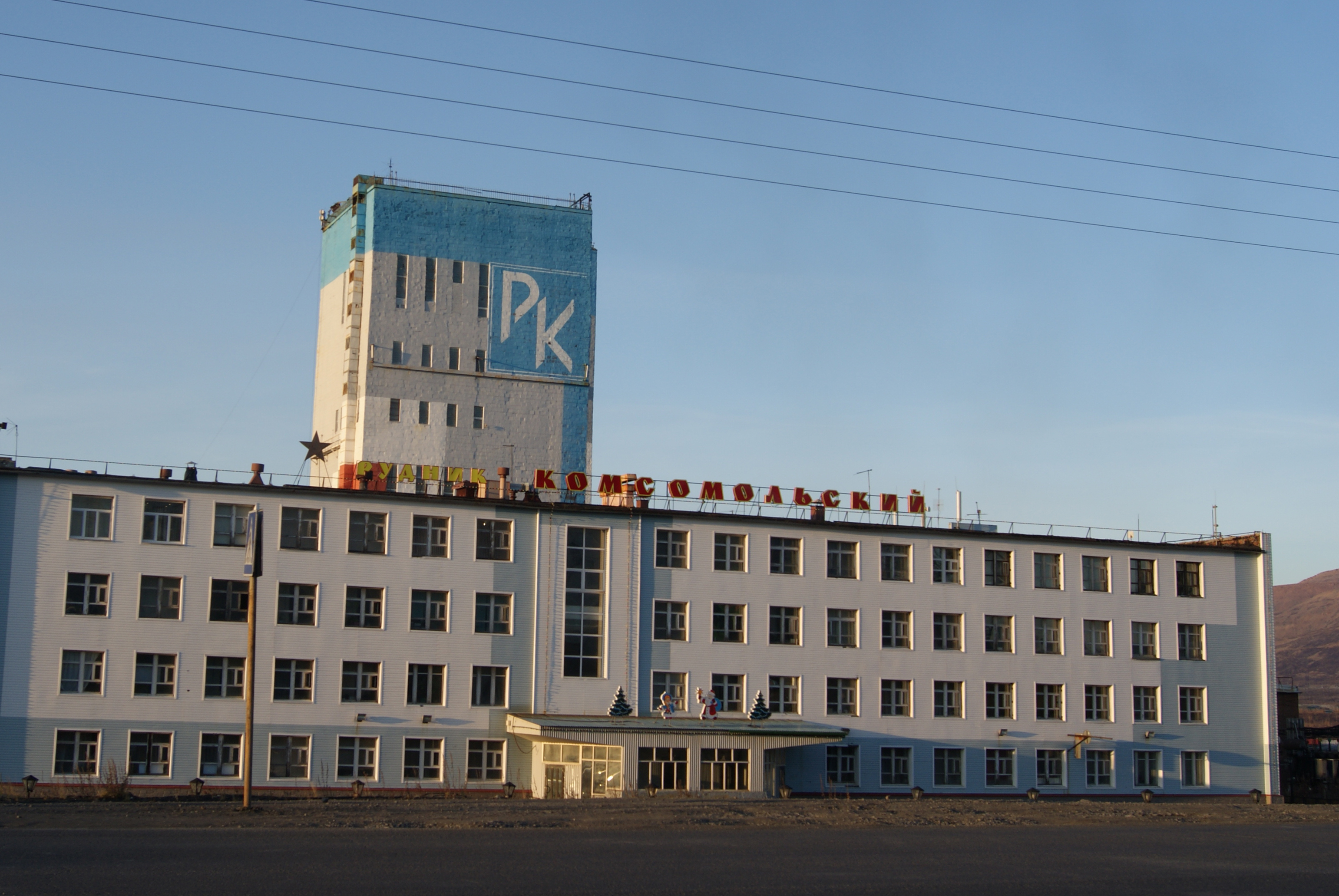 "Komsomolski" begin work since 1971.